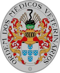 Heraldic symbol of the Portuguese Order of Veterinarian Doctors